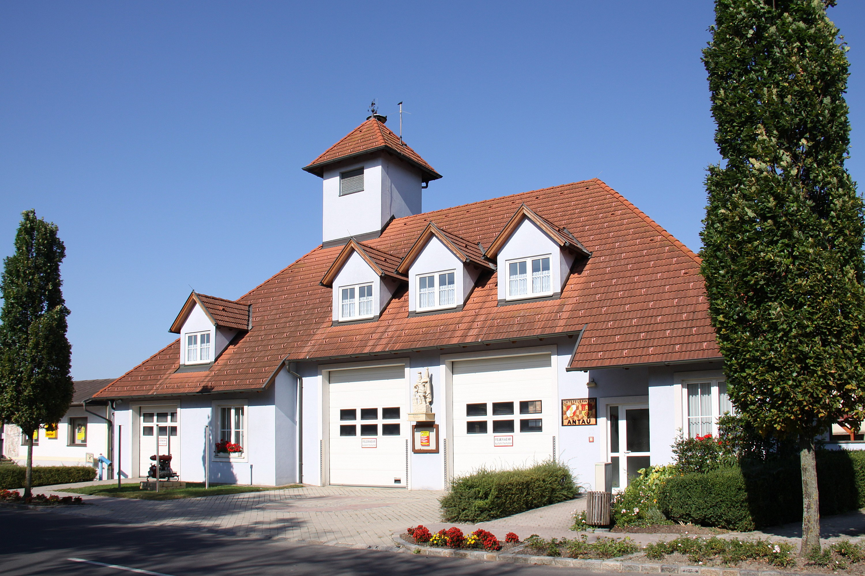 Fire station - Antau. Object location47° 46′ 23.37″ N, 16° 28′ 37.37″ E